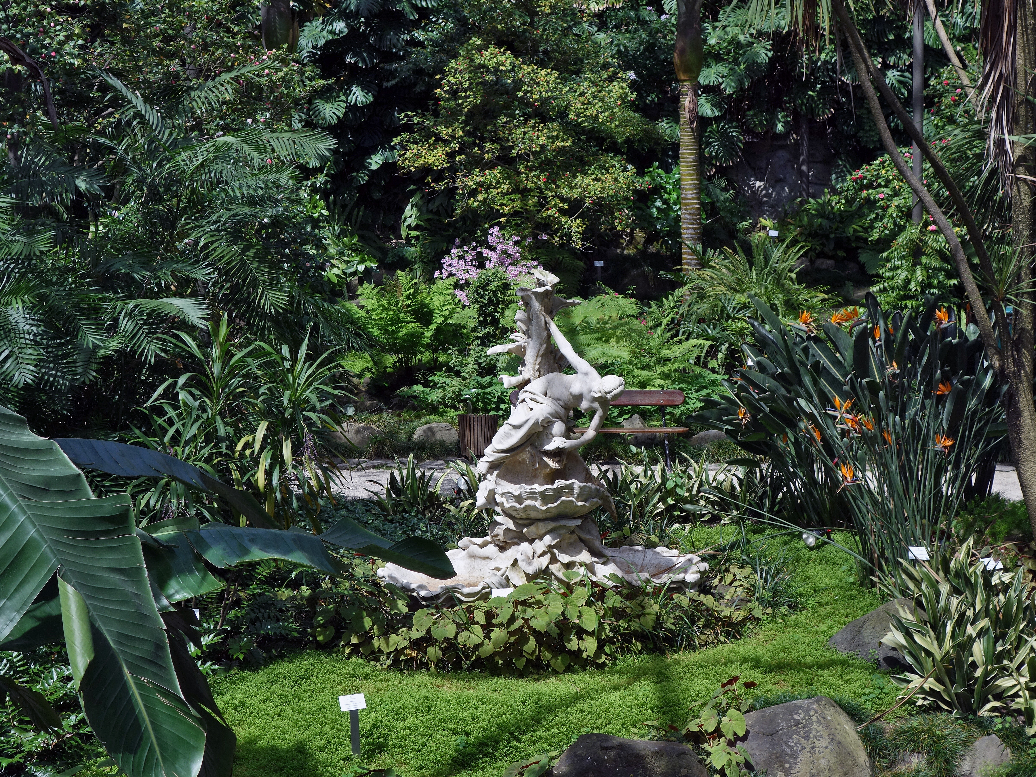 Estufa Fria de Lisboa: Estufa Fria (Cold Greenhouse)